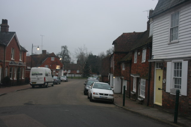 High St, Lamberhurst